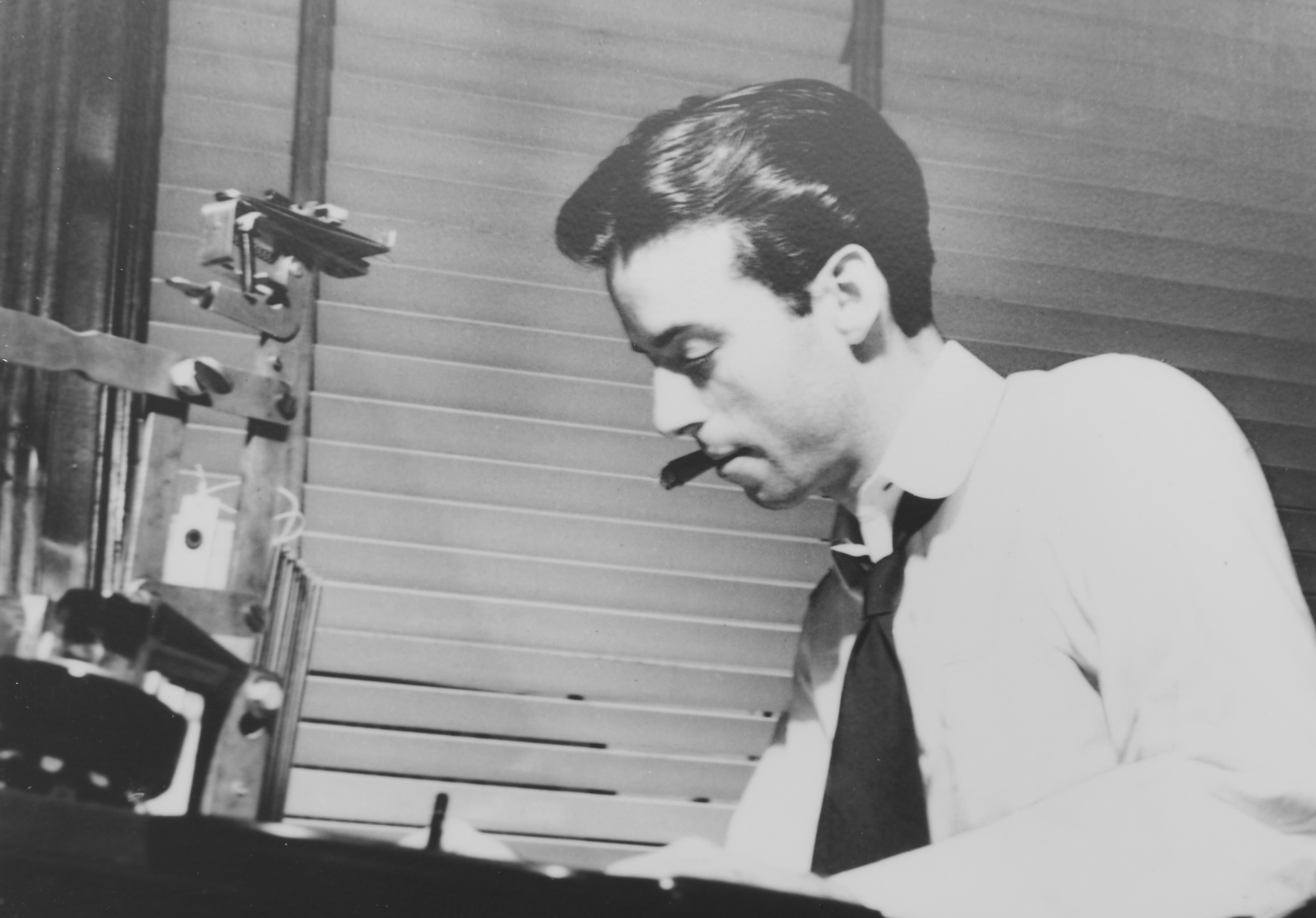 Lee Hunter Jr. (engineer) at his desk inventing